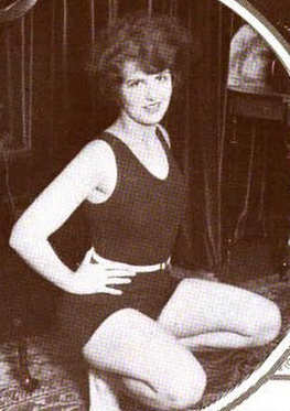 A young white woman in a squatting position, hand on her hip, smiling at the camera. She is wearing a dark swimsuit with a white belt.